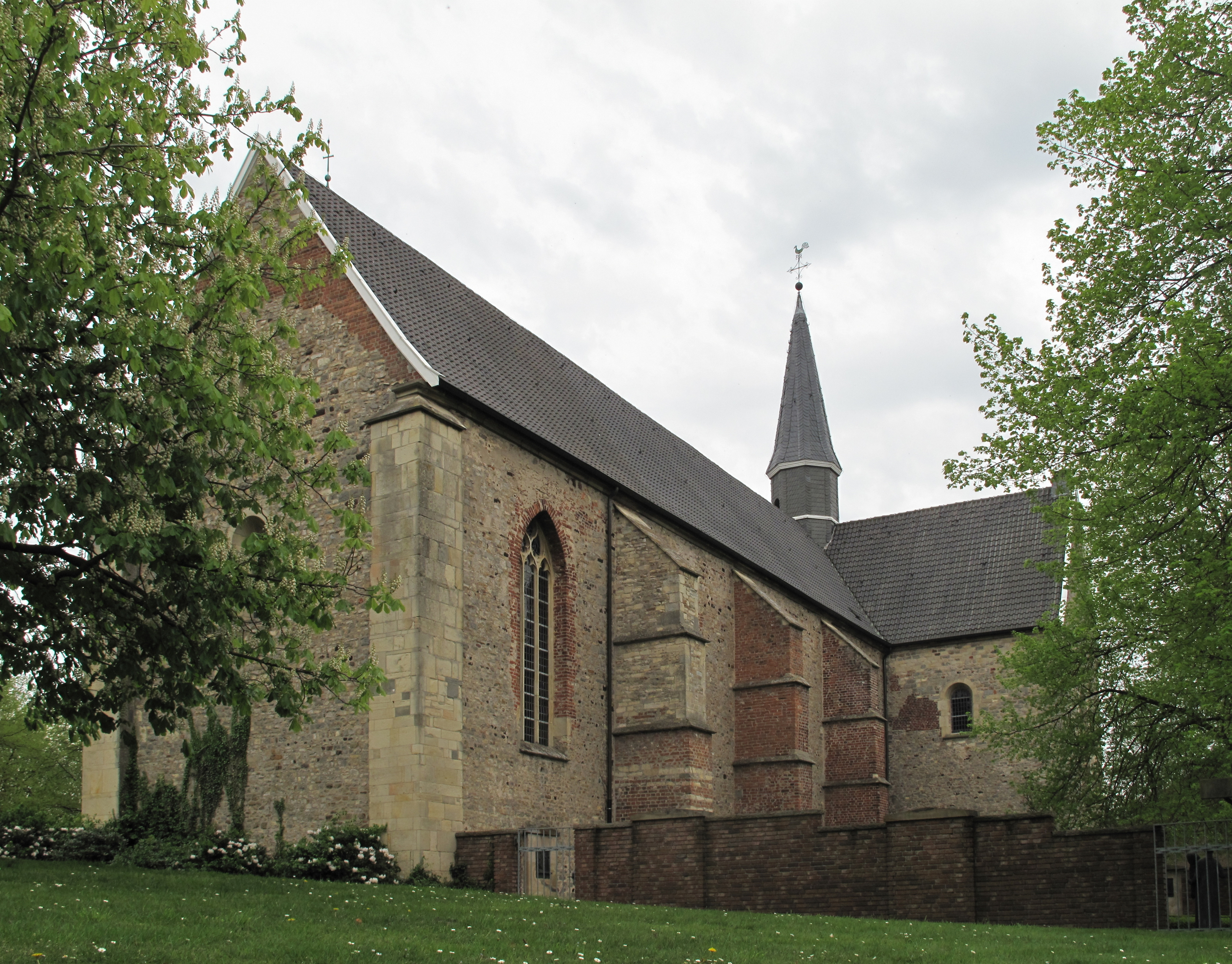 Vreden, church: die Stifftkirche Felicitas